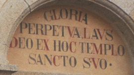 Chronogramm at church in Wengen